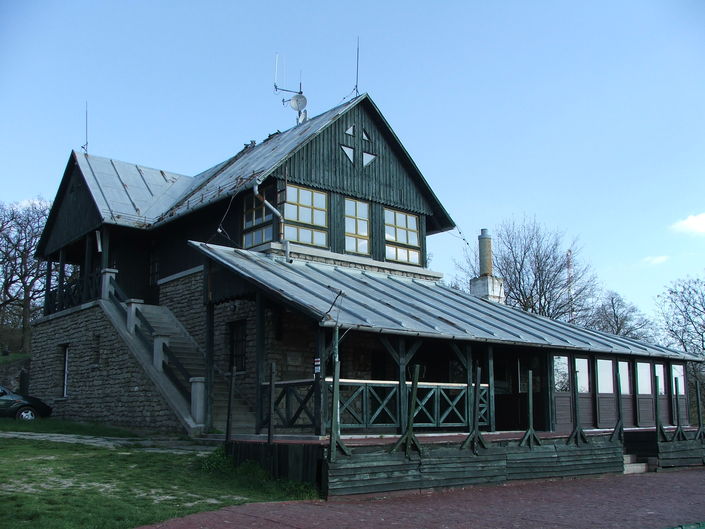 Vaskapu tourist house of Esztergom built in 1914. Brilli Gyula hut.